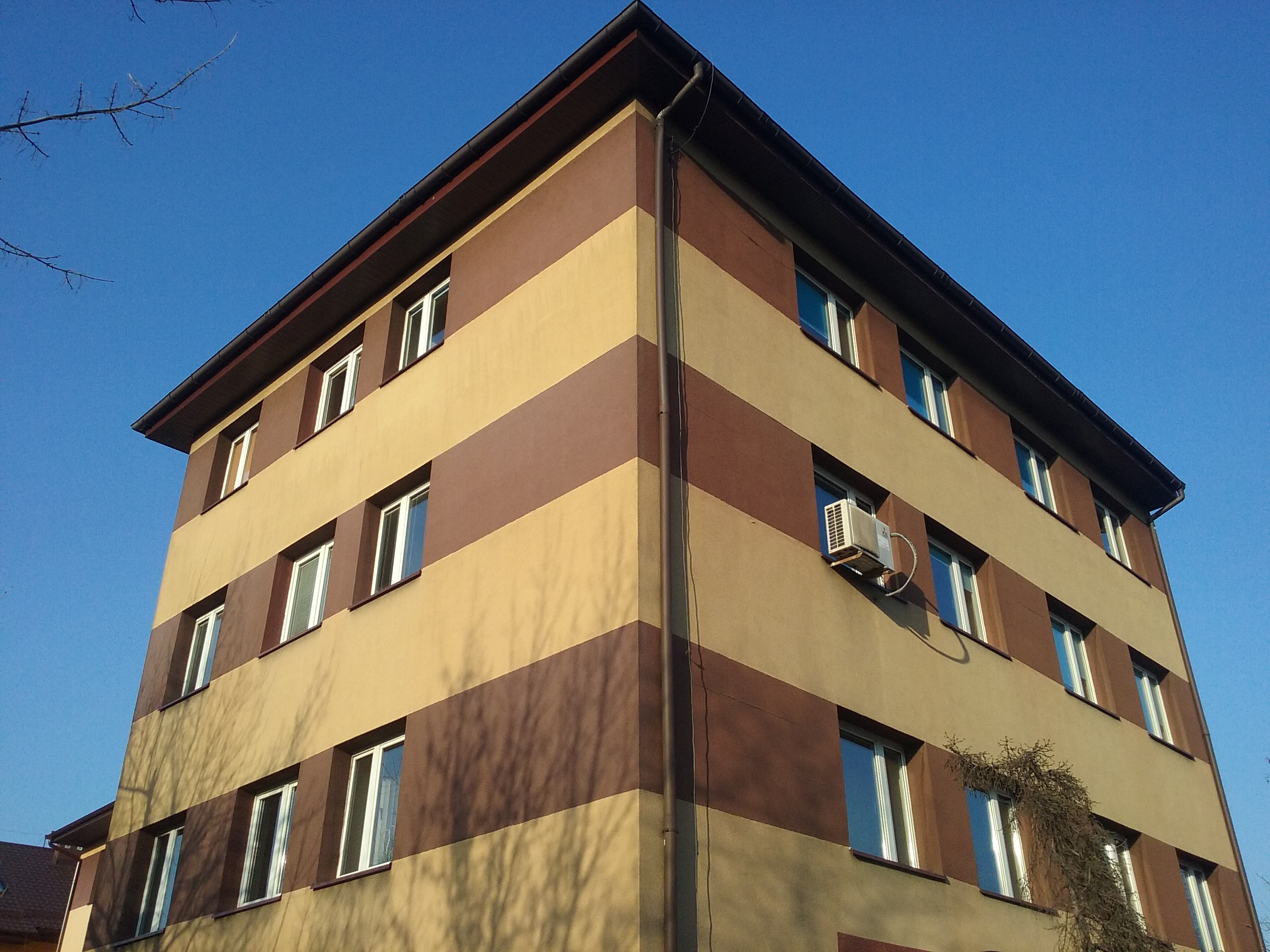 Tax office in Tomaszow Mazowiecki, Łódź Voivodeship, central Poland, EU